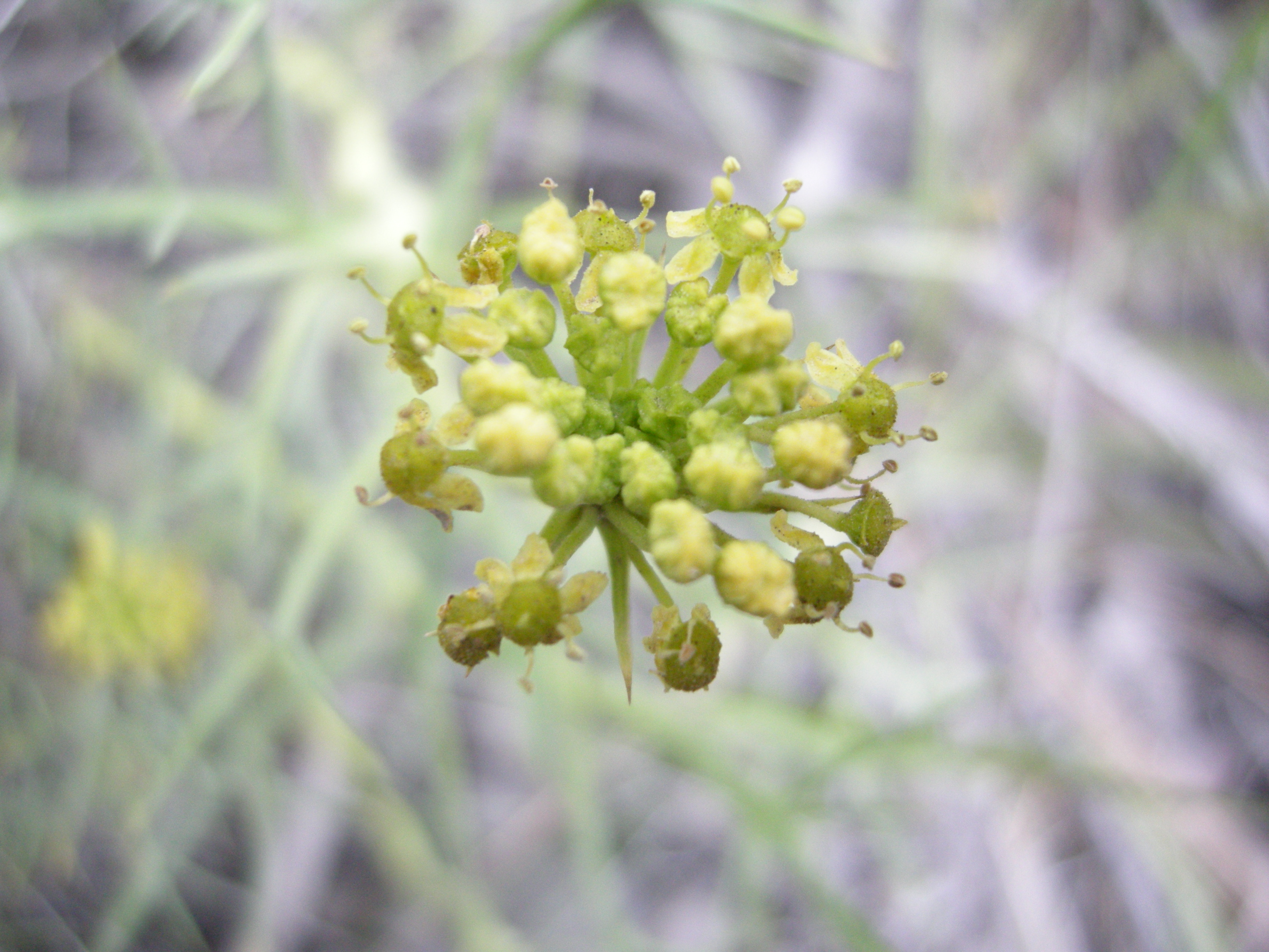 Top view of the inflorescence of Mulinum spinosum. Picture taken in Los Alerces National Park (Chubut province, Argentina).